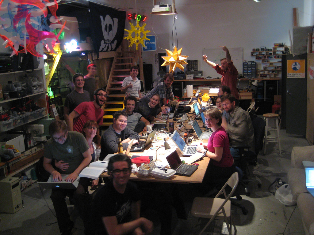 This is a picture of the original NYC Resistor hackerspace located at 397 Bridge Street from 2007-2009.